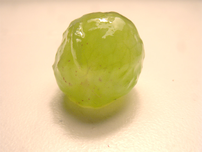 I took this picture myself. It's a Coronation grape with the outer skin removed. (I also removed it from the skin myself.)